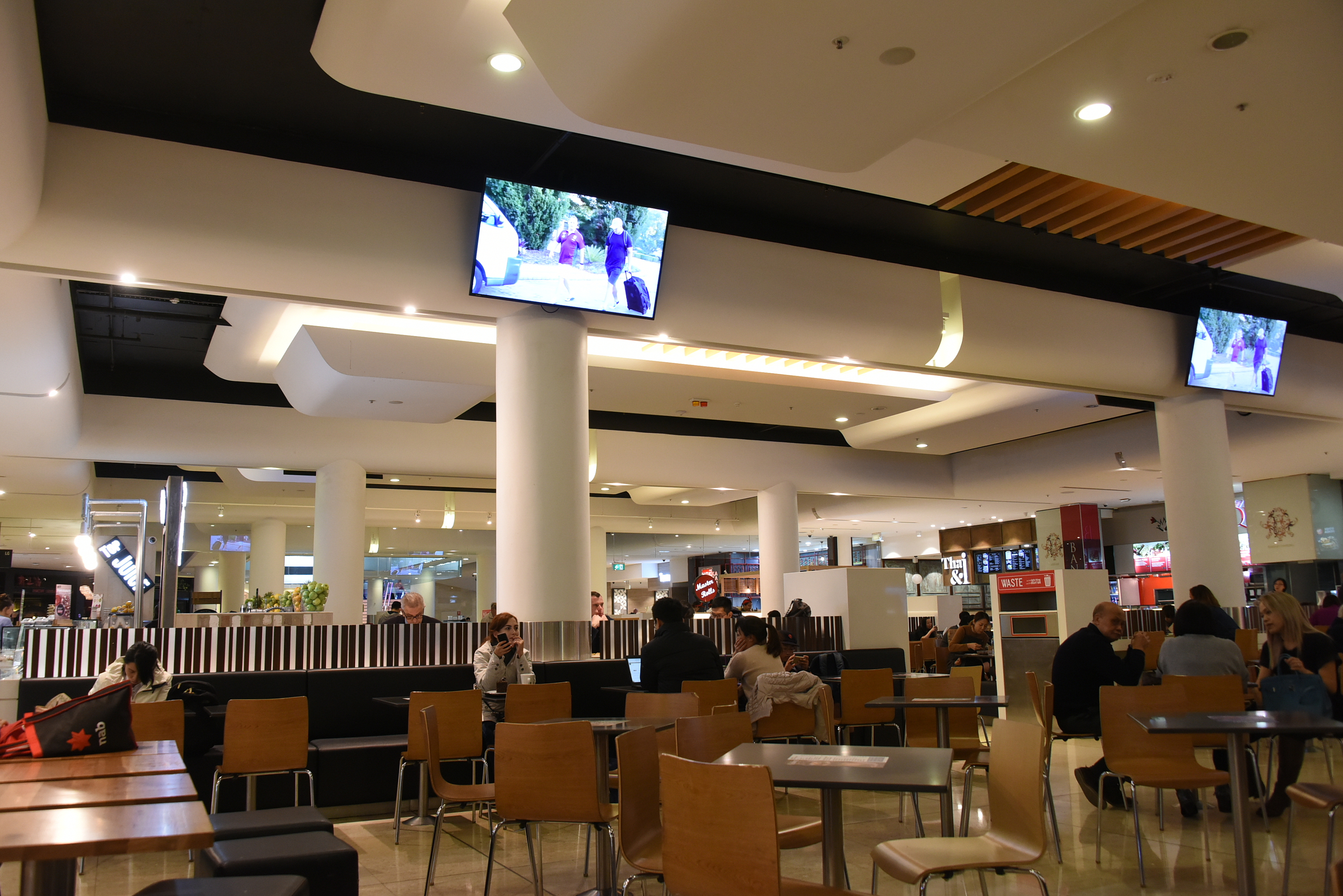 Chatswood Chase, Chatswood, Sydney